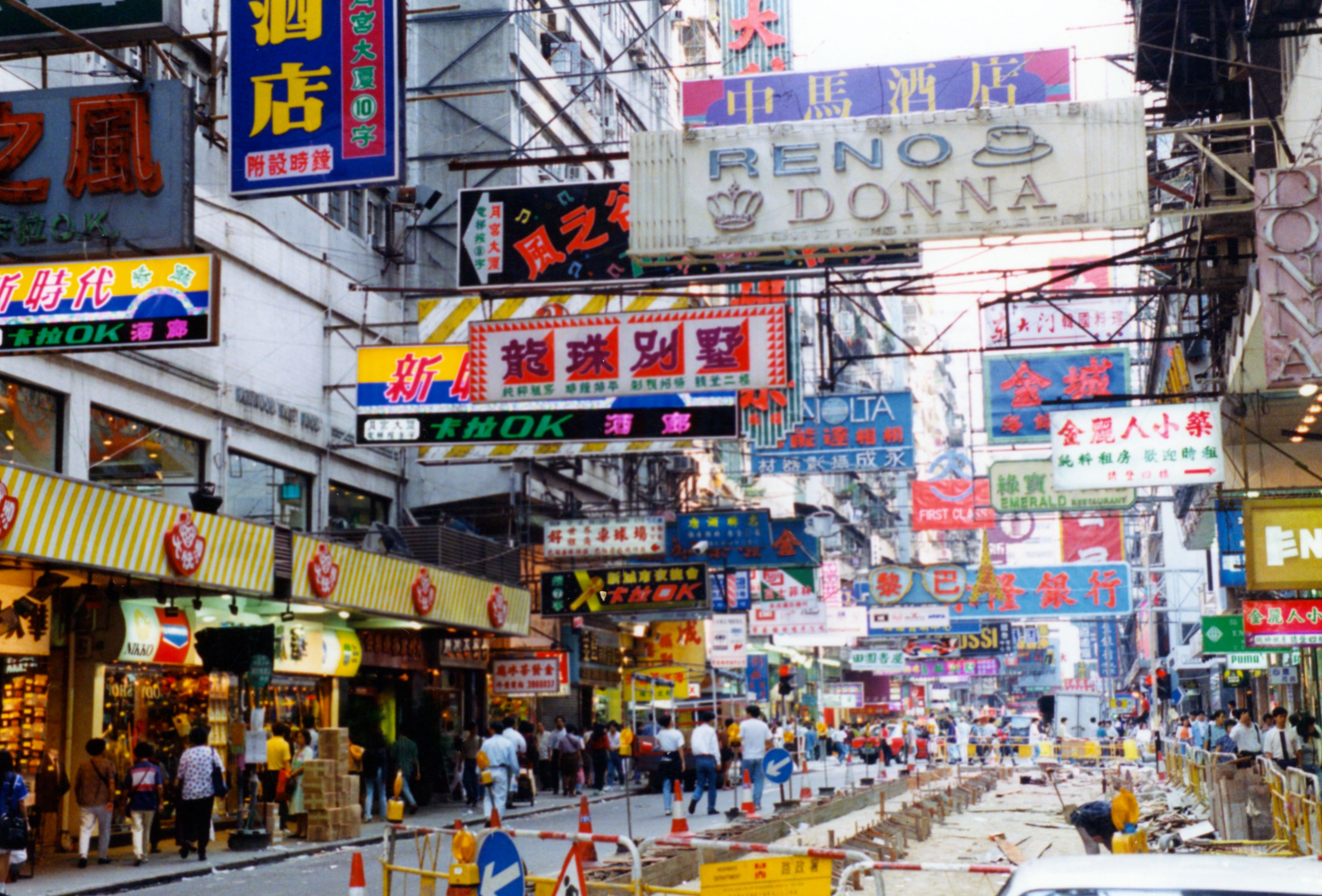 A Hong Kong street in the daytime featuring a myriad of overhead banners, with construction ditch in the middle, 1993.jpg Other information Photo by George Garrigues.